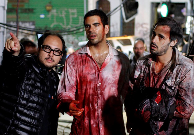 Nicolás López directing Eli Roth and Ariel Levy on the ¨Aftershock¨set.